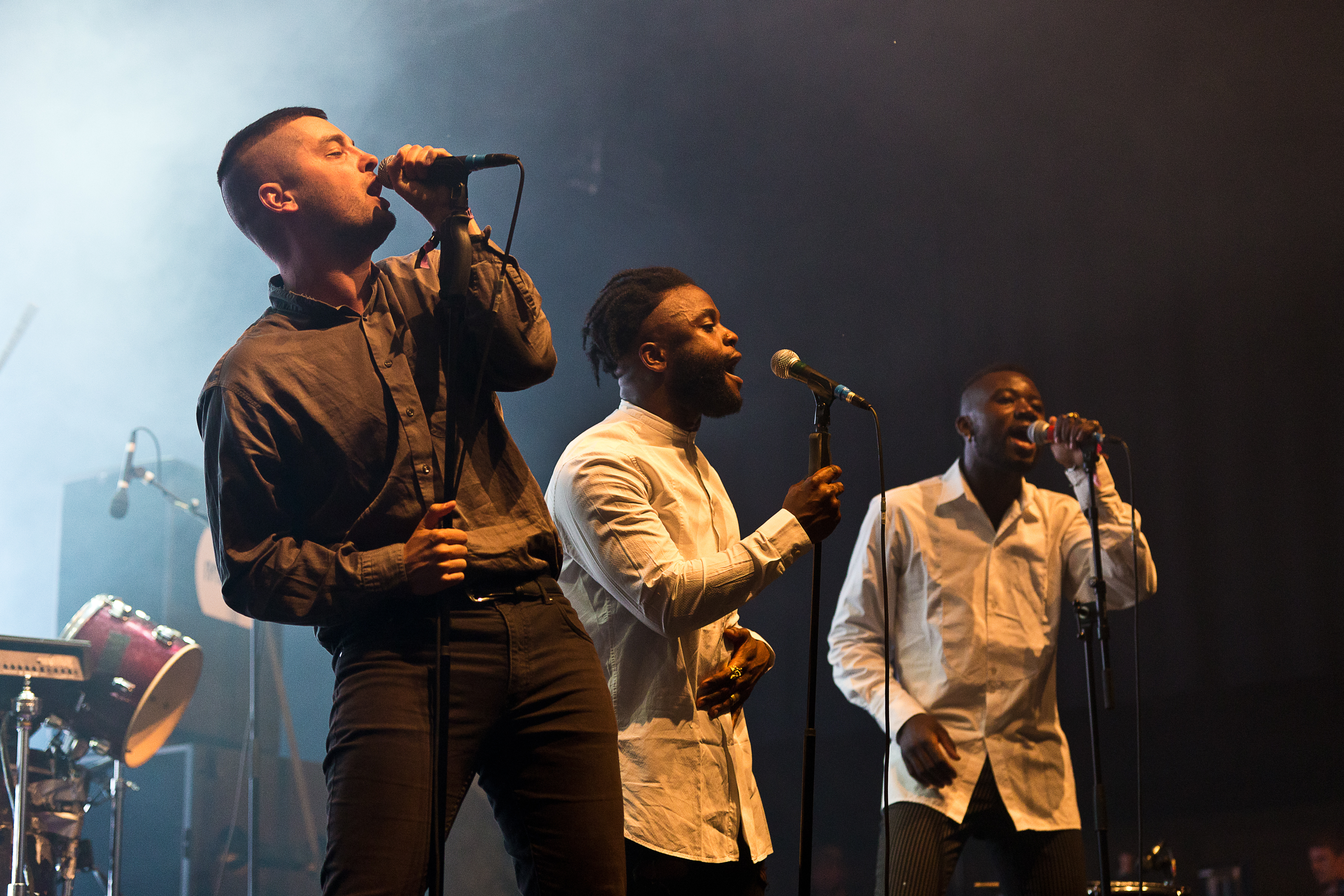 The Scottish hip hop band Young Fathers at the Melt! 2015 in Ferropolis/Germany.